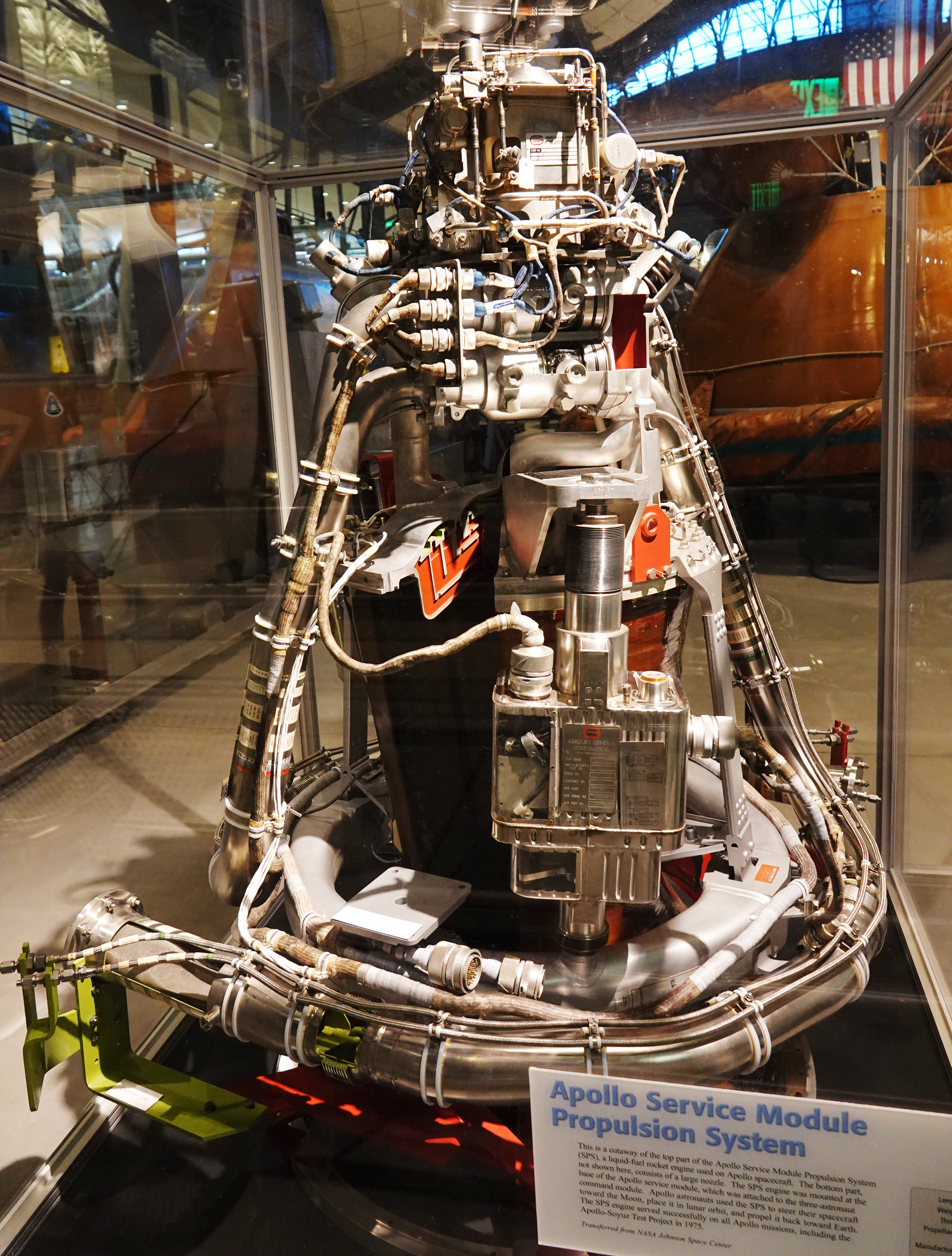 This is a cutaway of the top part of the Apollo Service Module Propulsion System (SPS), a liquid-fuel rocket engine used on Apollo spacecraft. The bottom part, not shown here, consists of a large nozzle. The SPS engine was mounted at the base of the Apollo service module, which was attached to the three-astronaut command module. Apollo astronauts used the SPS to steer their spacecraft toward the Moon, place it in lunar orbit, and propel it back toward Earth. The SPS engine served successfully on all Apollo missions, including the Apollo-Soyuz Test Project in 1975. Picture taken at the National Air and Space Museum's Steven F. Udvar-Hazy Center in Chantilly, Virginia, USA. Length: 1.6 m (5 ft 3 in) Weight: 1,733 kg (3,850 lb) Thrust: 97,400 N (21,900 lb) Propellants: hydrazine dimethylhydrazine, nitrogen tetroxide Manufacturer: Aerojet General Corp. Transferred from NASA Johnson Space Center